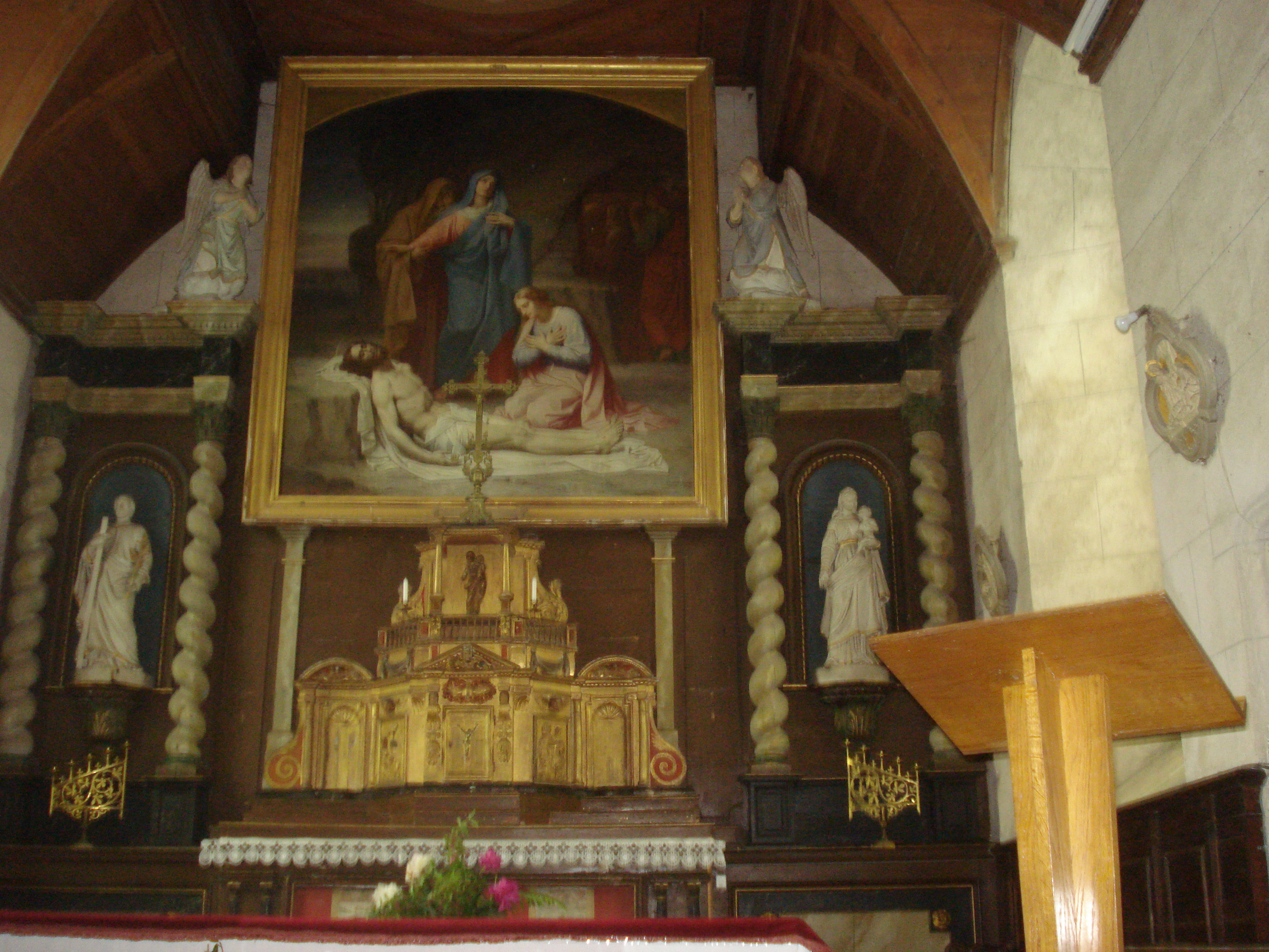 Le Châtenet-en-Dognon (Haute-Vienne, France), altar pieces of the church, inscrit M.H. "Stabat Mater" (1844) de Victor ZIER, tableau donné par l'Empereur (1869), classé M.H..